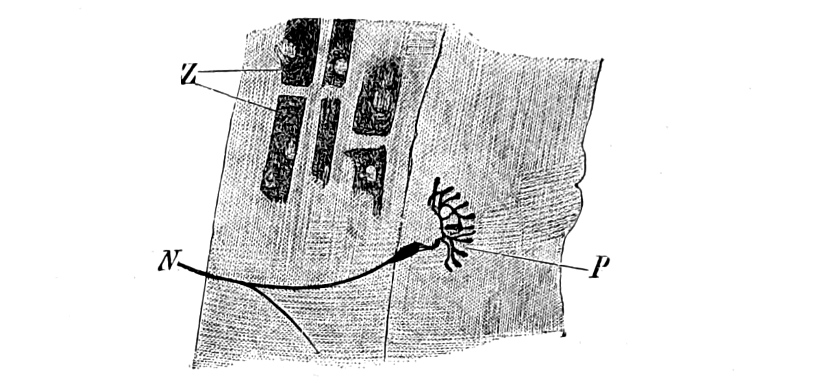 Fig. 51.—Motor nerve-ending from the muscular fibre of the intercostal muscle (muscle between the ribs) of a hedgehog. N, nerve; P, end-plate; Z, flat connective tissue-cells.